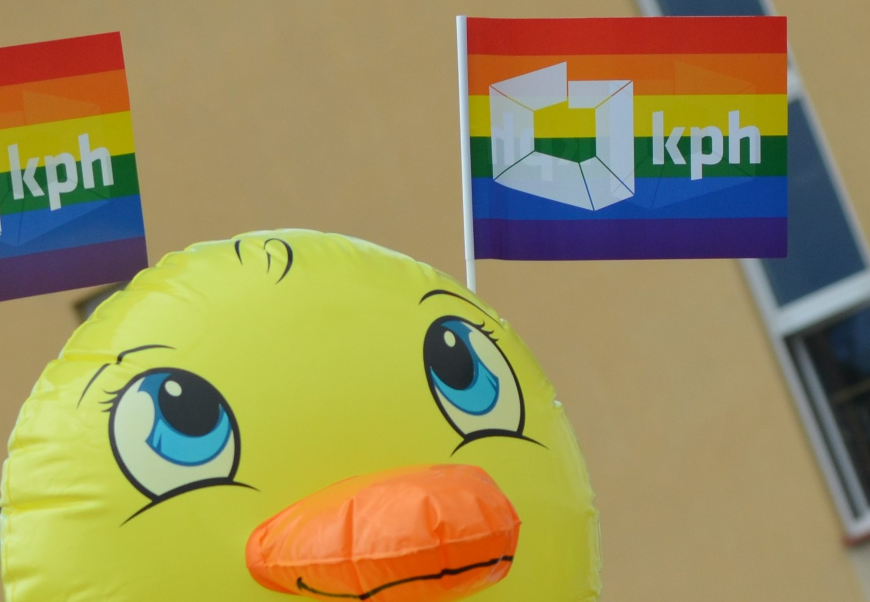 KPH flags